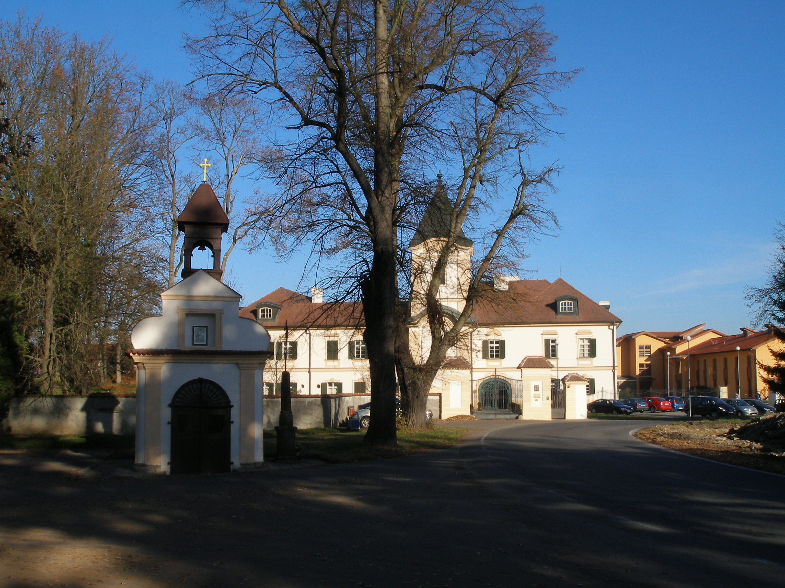 Osek (Strakonice District), the chapel of St. John of Nepomuk and the castle